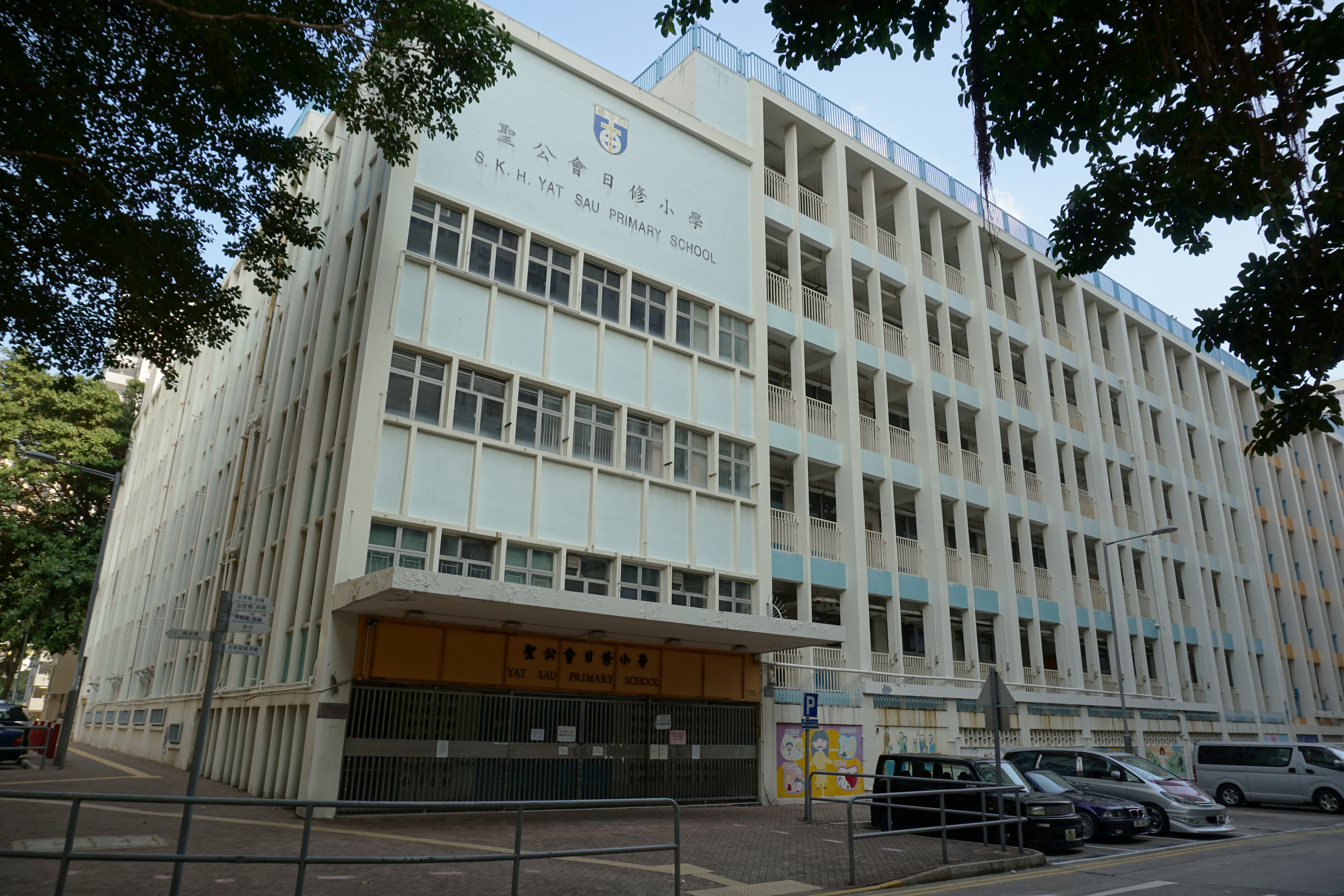 Former S.K.H. Yat Sau Primary School in Ngau Chi Wan, Hong Kong.